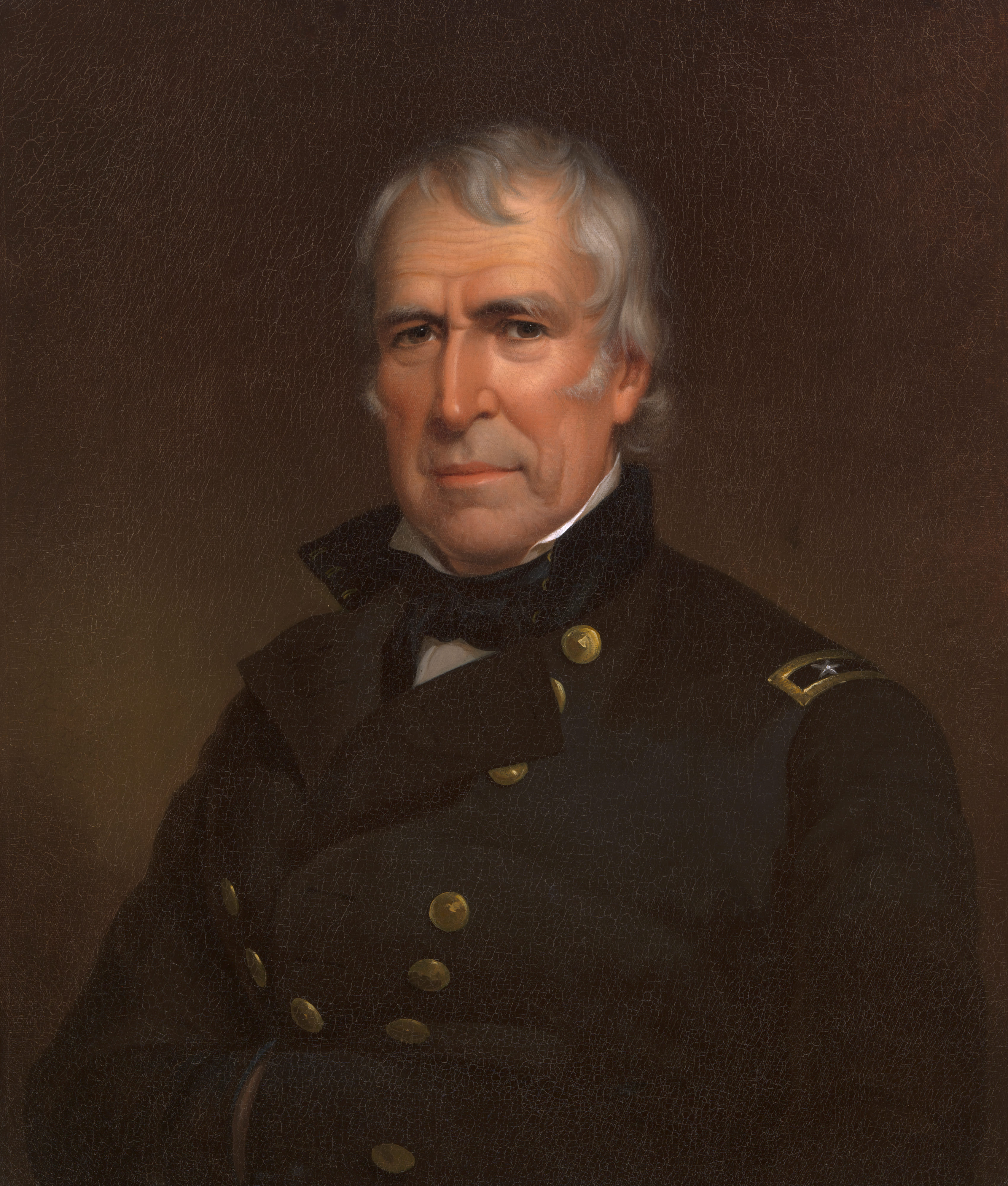 Zachary Taylor, 24 Nov 1784 - 9 Jul 1850. After his victories in Palo Alto and Monterrey México, Taylor was elected president of the USA.